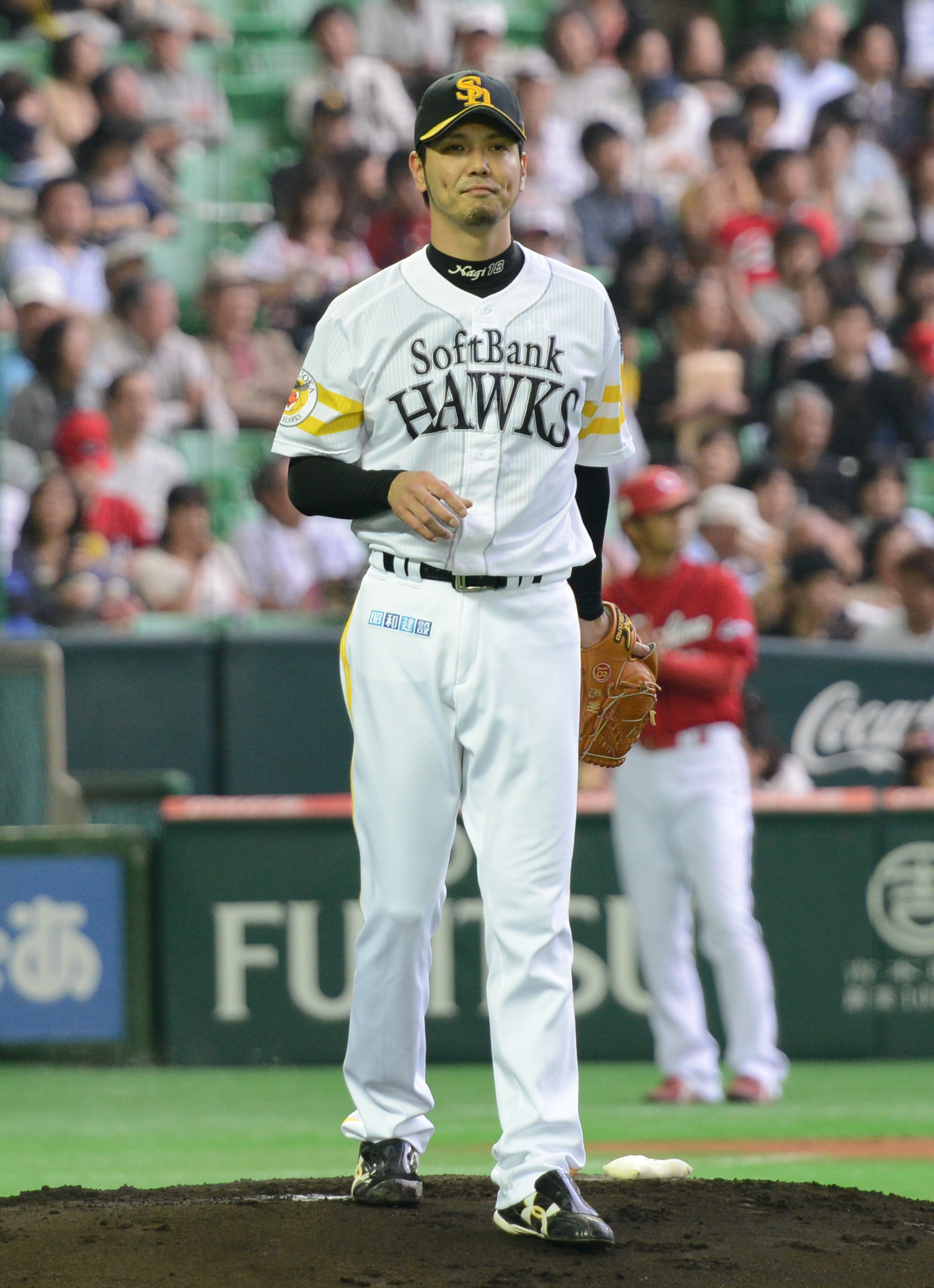 Nagisa Arakaki, pitcher of the Fukuoka SoftBank Hawks, at Fukuoka Dome.